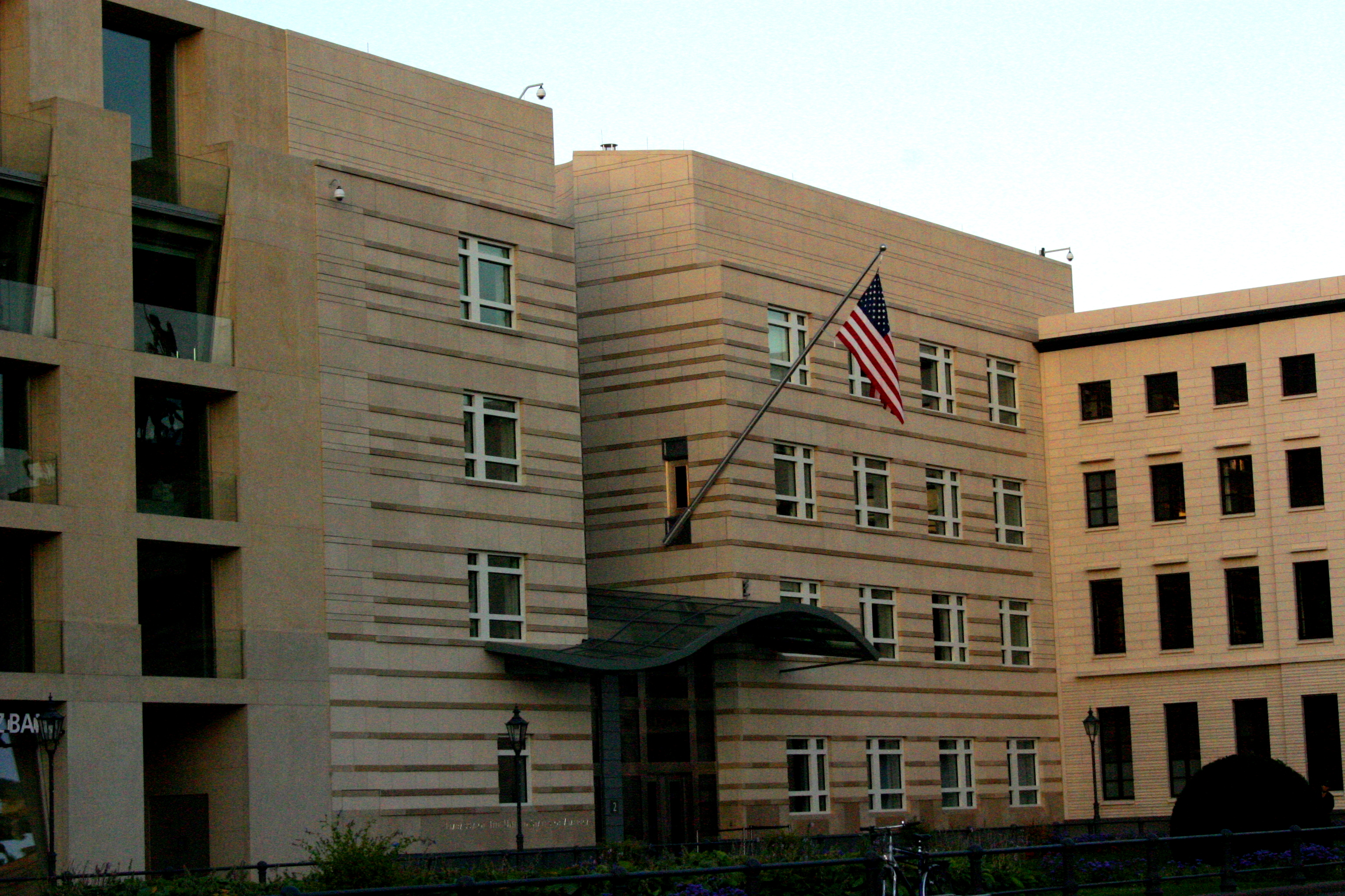 U.S.-Embassy in Berlin, north-side, Pariser Platz 2